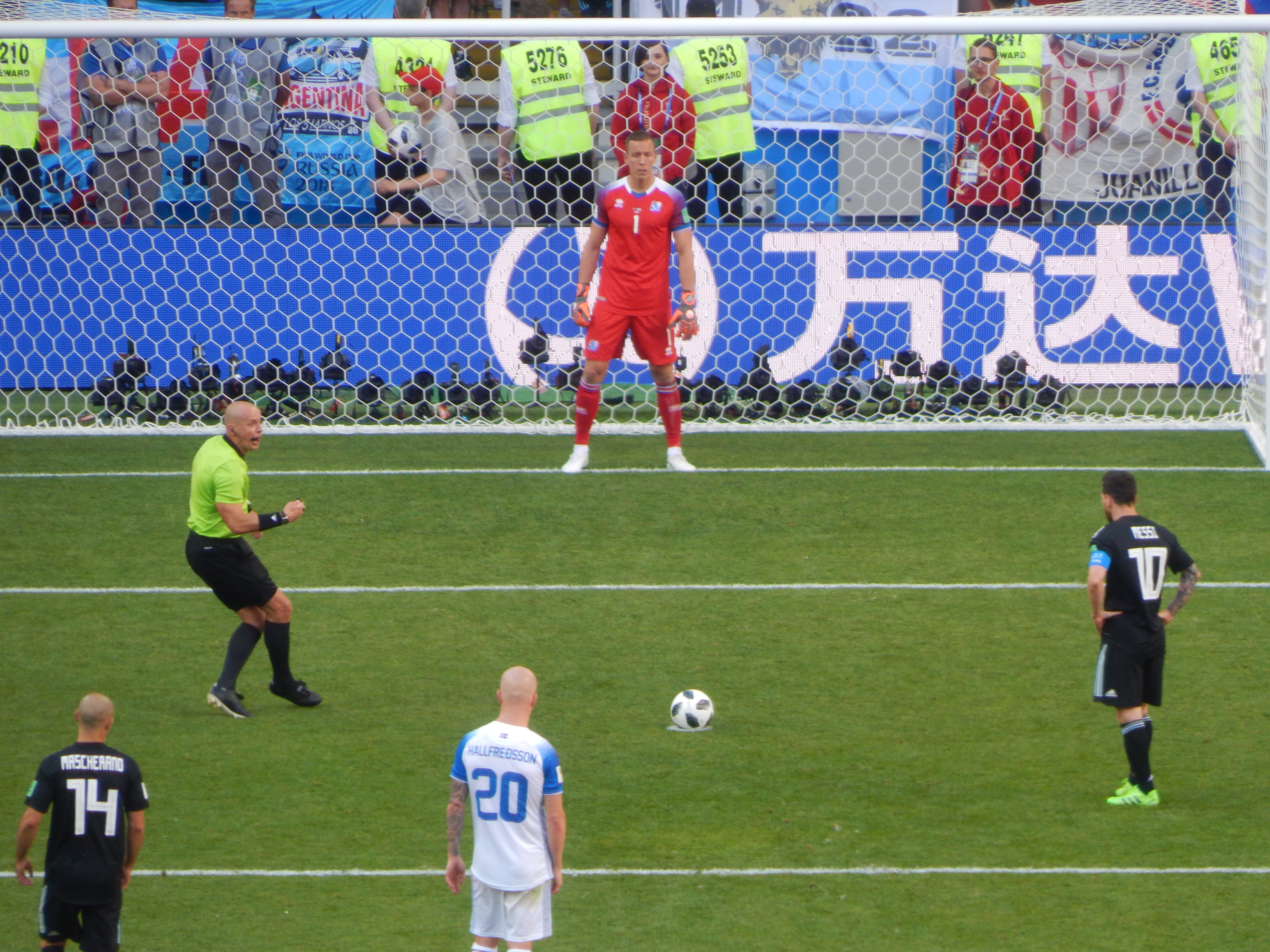 FIFA World Cup 2018, Group D, Argentina vs. Iceland